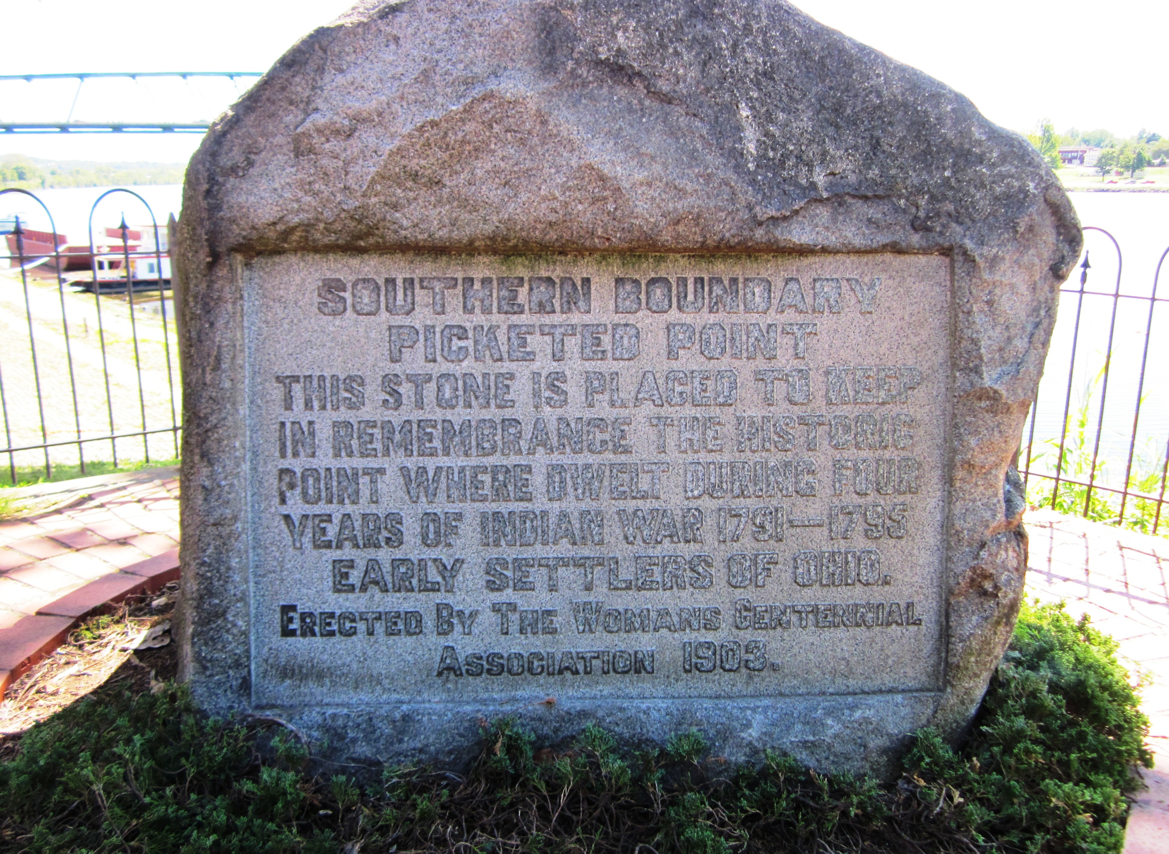 Picketed Point marker at Marietta, Ohio, September 2012. I took this photo, and I release to the public domain. ColWilliam (talk) 18:05, 13 September 2012 (UTC)